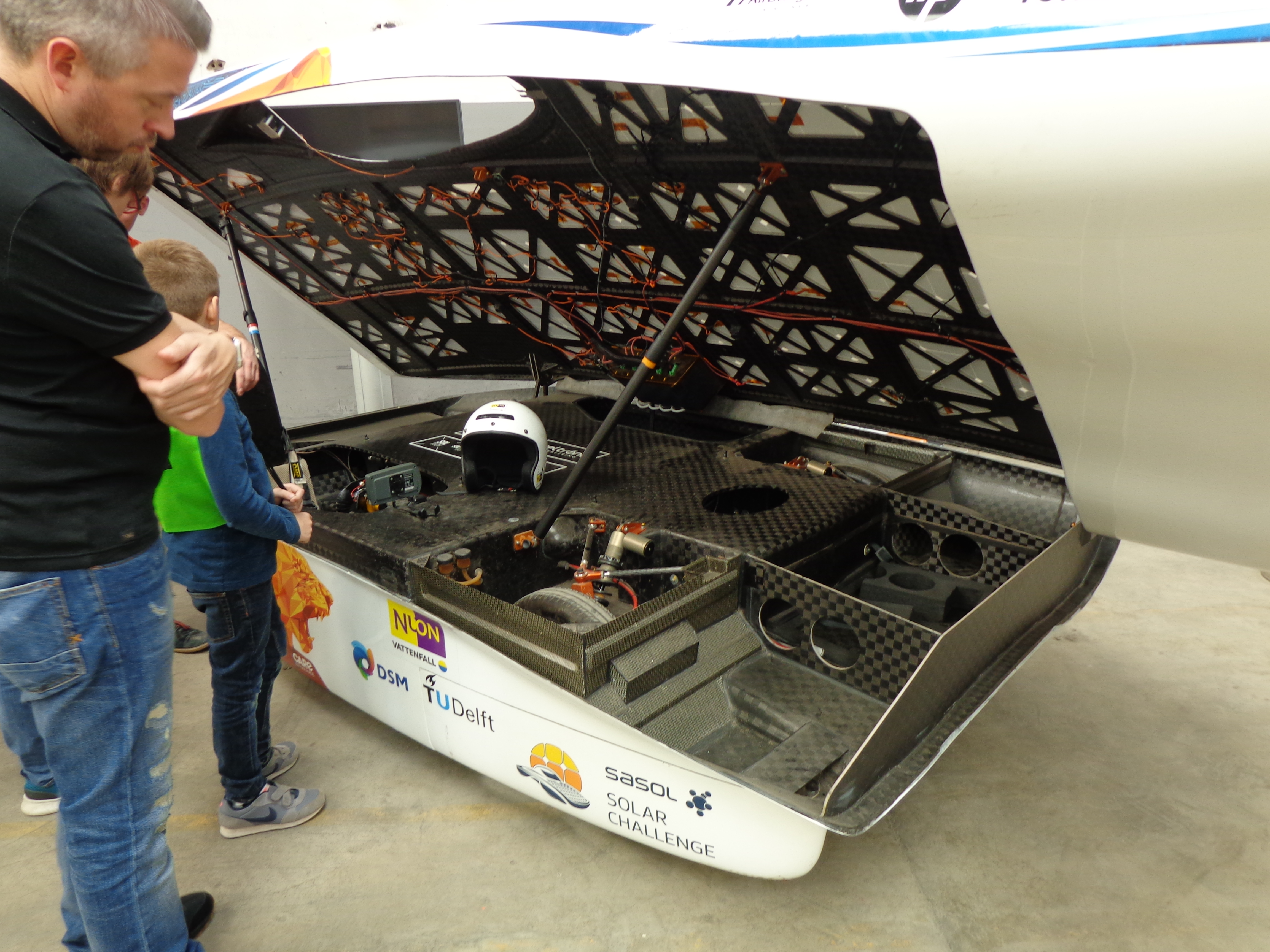 Inside the Nuna 8 solar-powered racing car